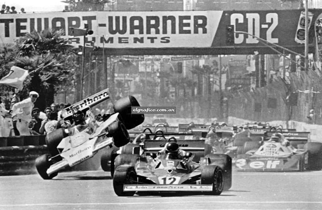 The McLaren driven by James Hunt almost on the air and close to Carlos Reutemann's Ferrari (#12) with the rest of the racers behind them.